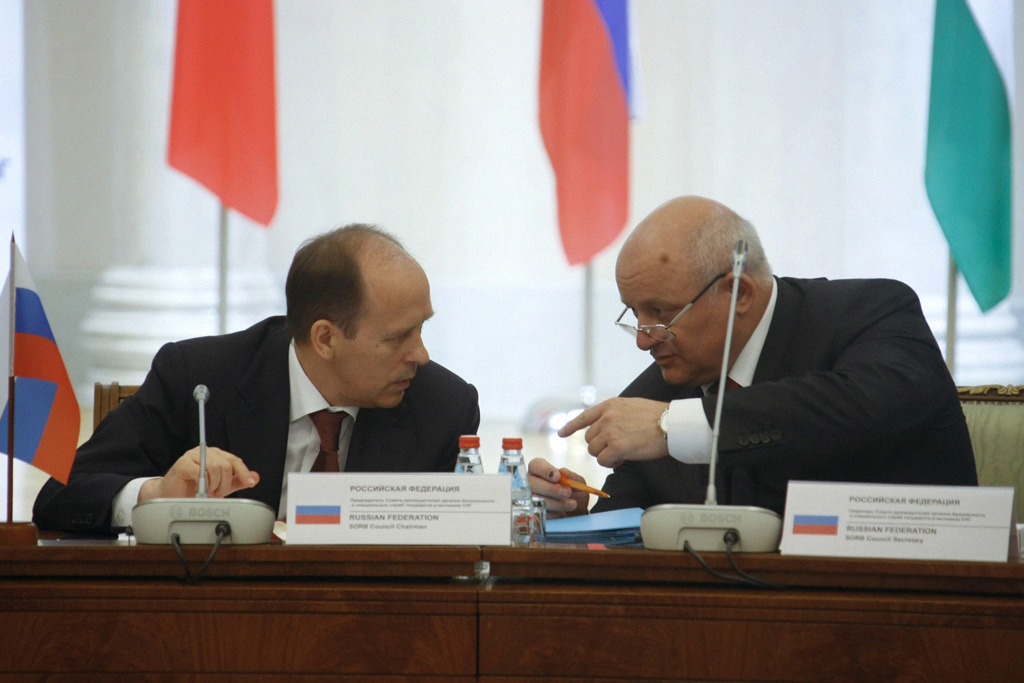 “Council of CIS security agencies and special services chiefs holds meeting”. Russia's Federal Security Service Chief Alexander Bortnikov (left) and head of the Sevice's international department, general lieutenant Alexei Kuzyura, attending the 28th session of the Council of CIS security and special services chiefs.